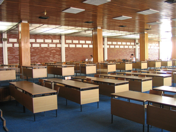 Реадинг роом in NUL "Kliment Ohridski" in Skopje